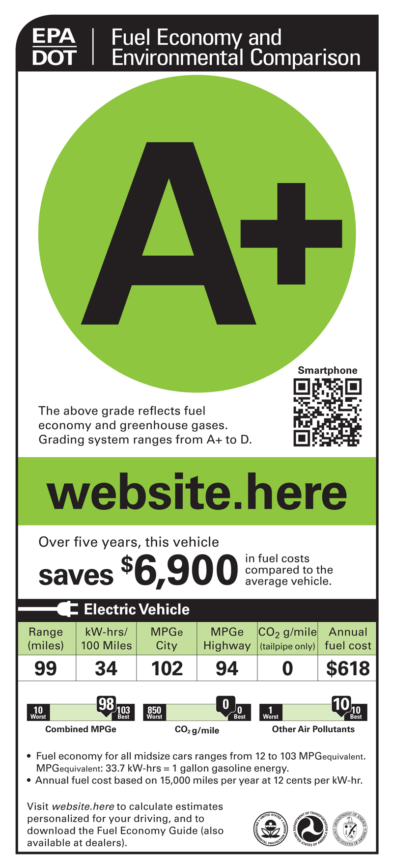 This is one of two new label options being proposed by the US EPA to be included on each new vehicle sold in the United States.